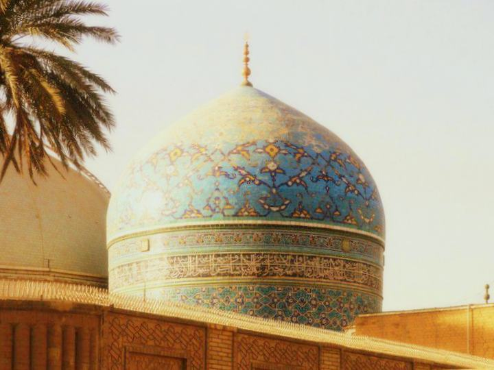 A sunset view of tomb of Abdul Qadir Jilani, Baghdad.